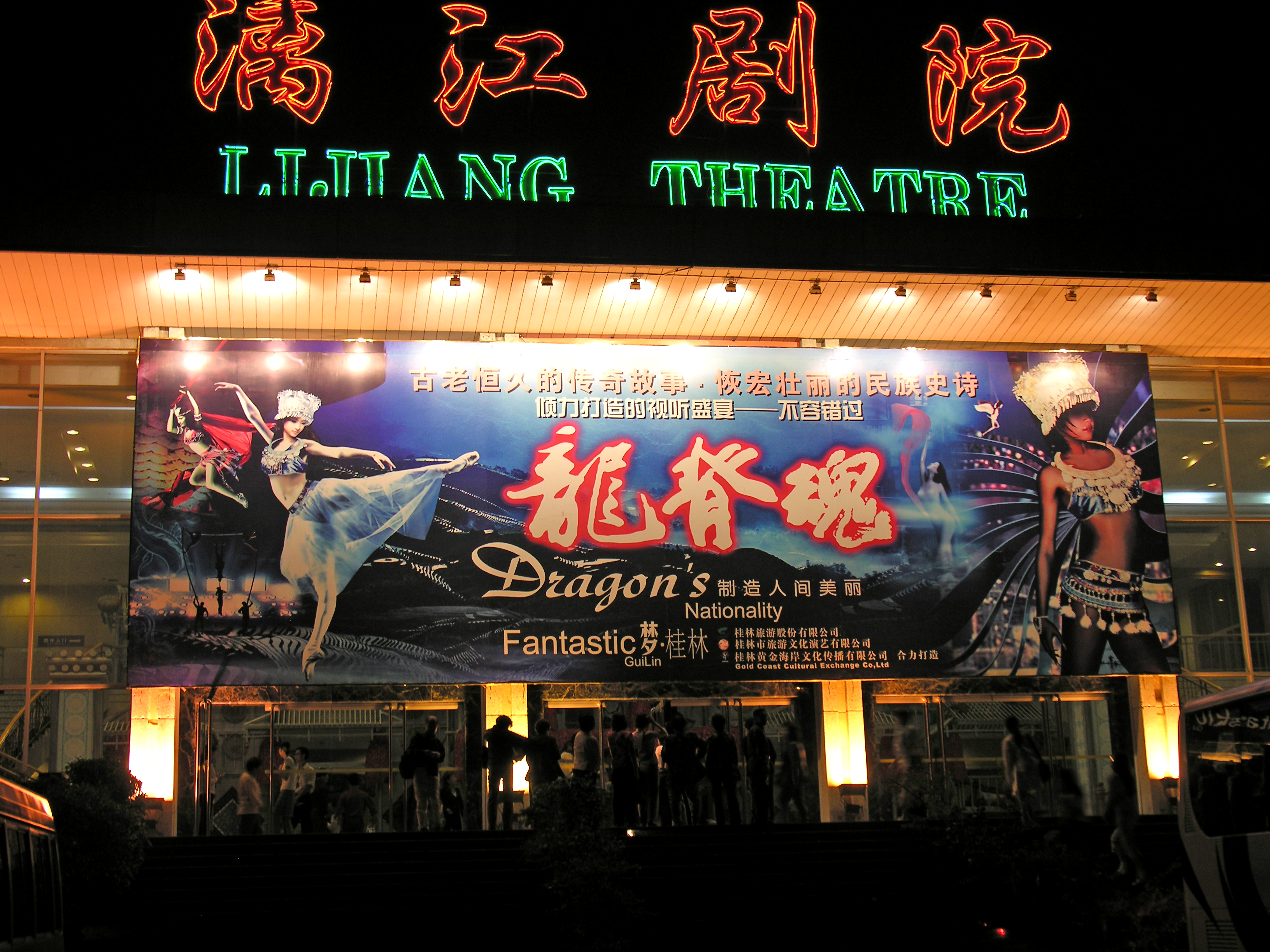 We went to a to see a theatrical performance in the evening. It was a very good show. It is a grand epic of minority nationality song and dance.